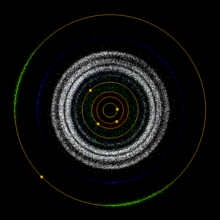 A plot of inner solar system asteroids and planets as of 2006 May 9, in a manner that exposes the Kirkwood Gaps. Similar to the position plot, planets (with trajectories) are orange, Jupiter being the outer most in this view. Various asteroid classes are colour coded: 'generic' main-belt are white. Inside the main belt, we have the Aten's (red), Apollo (green) and Amor (blue). Outside the main belt, the Hilda (blue) and the Trojan's (green). All object position vectors have been normalized to the length of the object's semi-major axis. The Kirkwood Gaps are visible in the main belt.